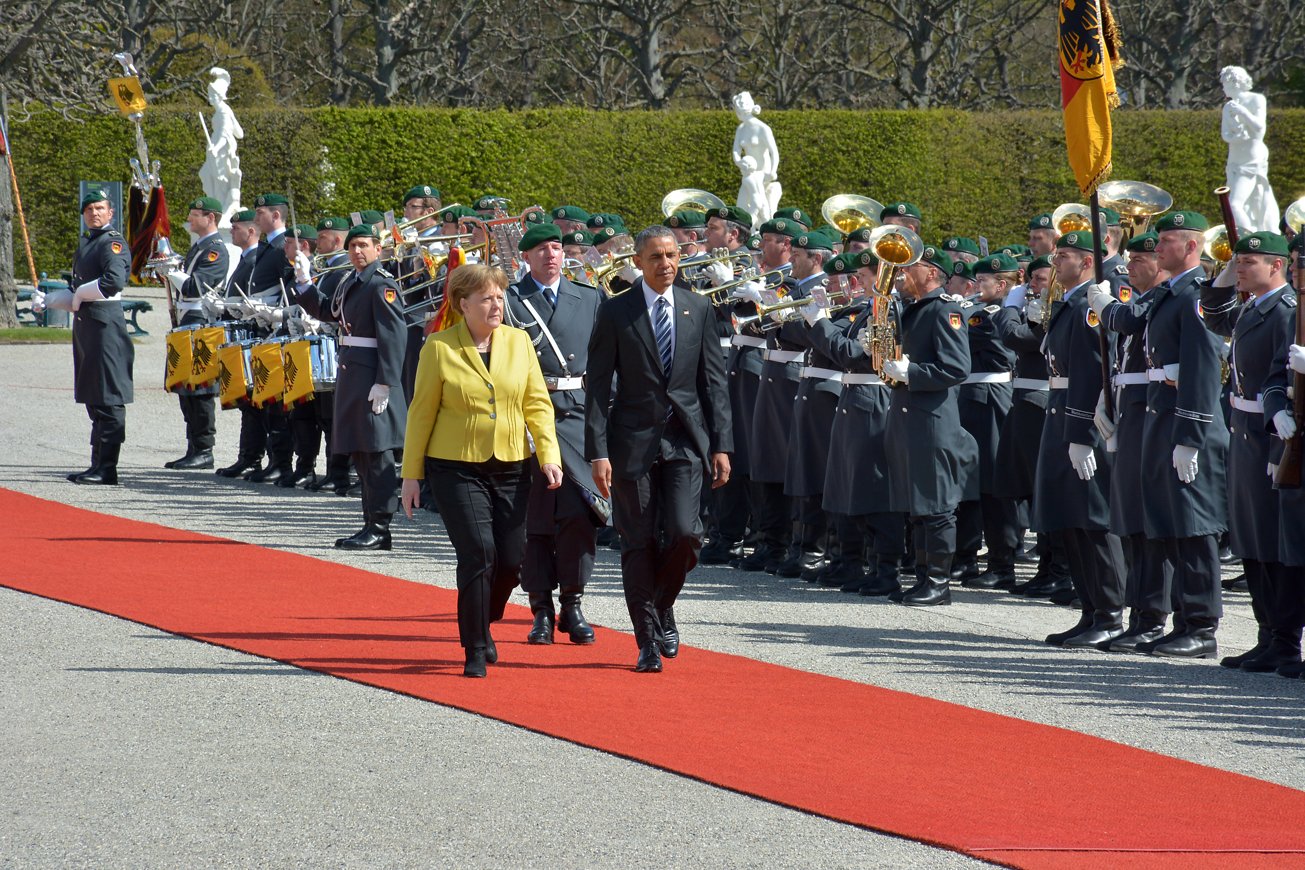 Chancellor of Germany Angela Merkel and the President of the United States of America Barack Obama in Herrenhausen Gardens in Hannover in 2016 ...